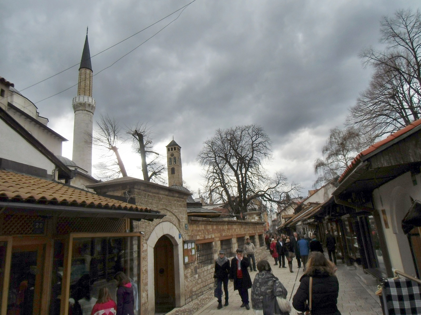 Saturday 23rd Feb in or around Sarajevo (2013)